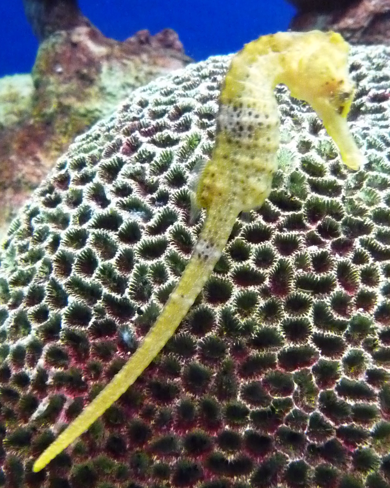 A Long-snouted seahorse (Hippocampus guttulatus) as seen at the Monterey Bay Aquarium.